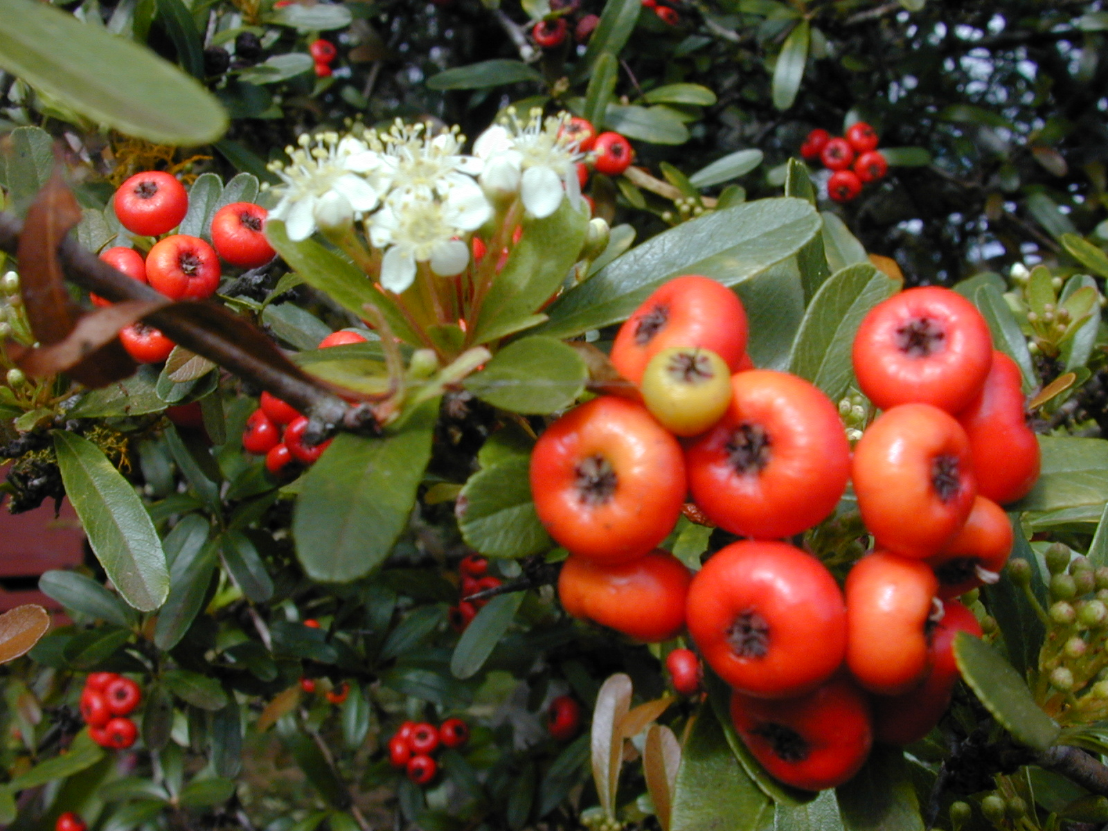 Pyracantha koidzumii (flowers and fruits). Location: Maui, Crater Road Kula